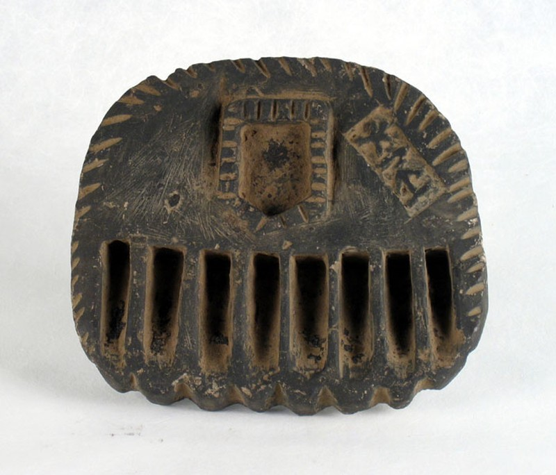 20th century Hannukah lamp from Yemen - Musée d'Art et d'Histoire du Judaïsme